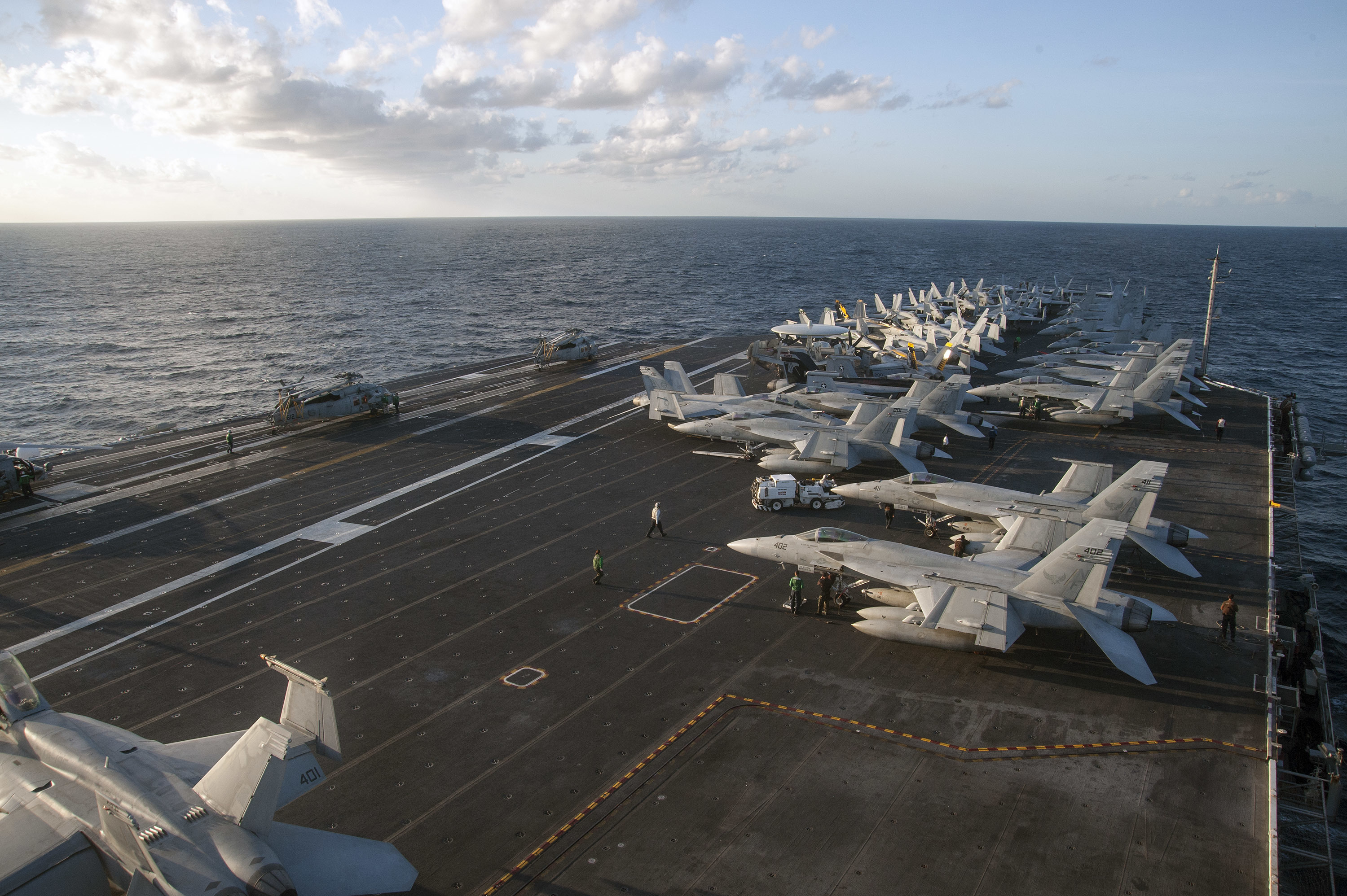 150705-N-XO220-004 BANDA SEA The Nimitz-class aircraft carrier USS George Washington transits the Banda Sea. George Washington and its embarked air wing, Carrier Air Wing 5, are on patrol in the 7th Fleet area of responsibility supporting security and stability in the Indo-Asia-Pacific region. George Washington will conduct a hull-swap with the Nimitz-class aircraft carrier USS Ronald Reagan later this year after serving seven years as the U.S. Navy's only forward-deployed aircraft carrier in Yokosuka, Japan.